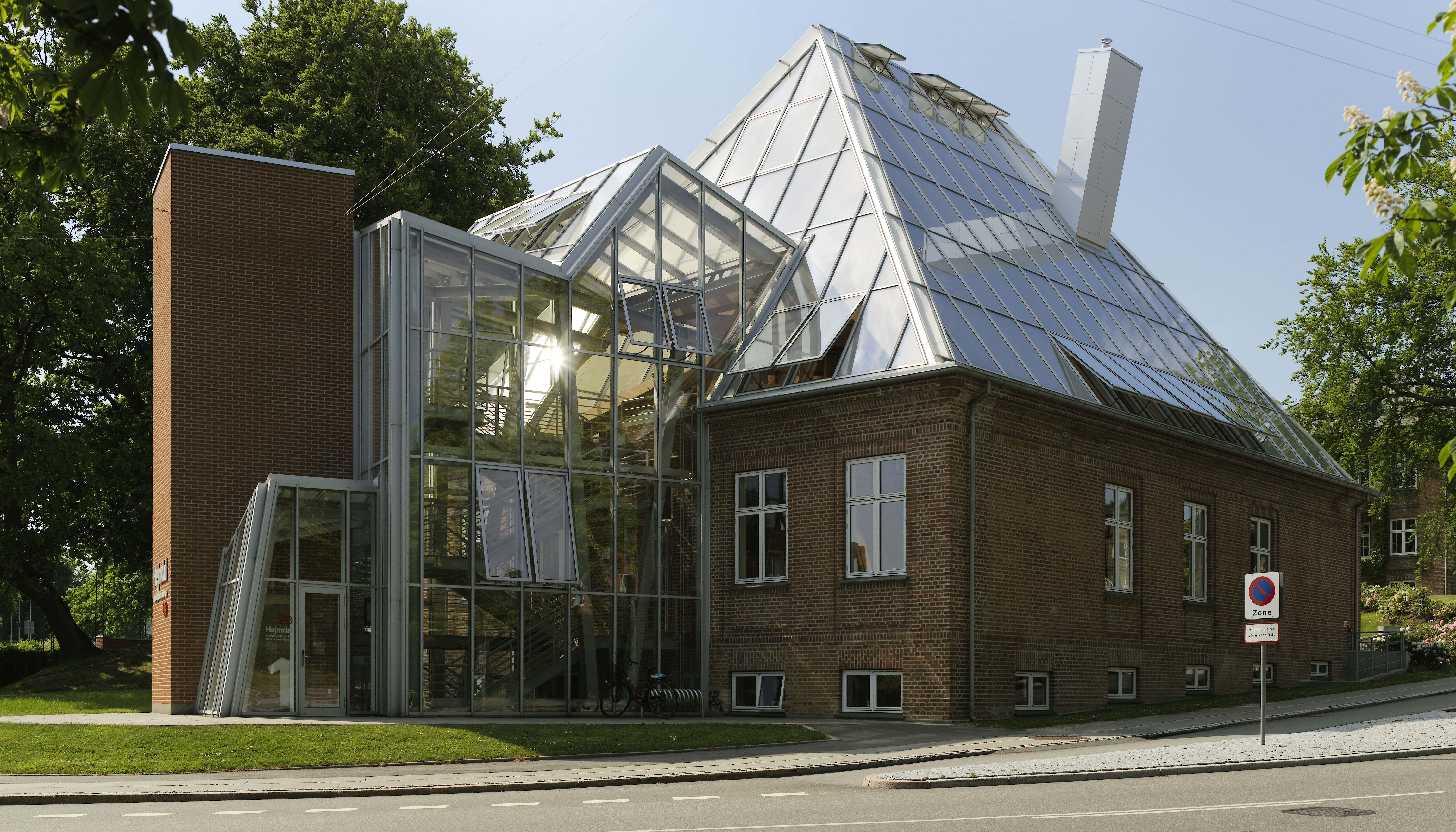 Architect Frank Gehry has designed Cancer Society's house for cancer counseling in Aarhus